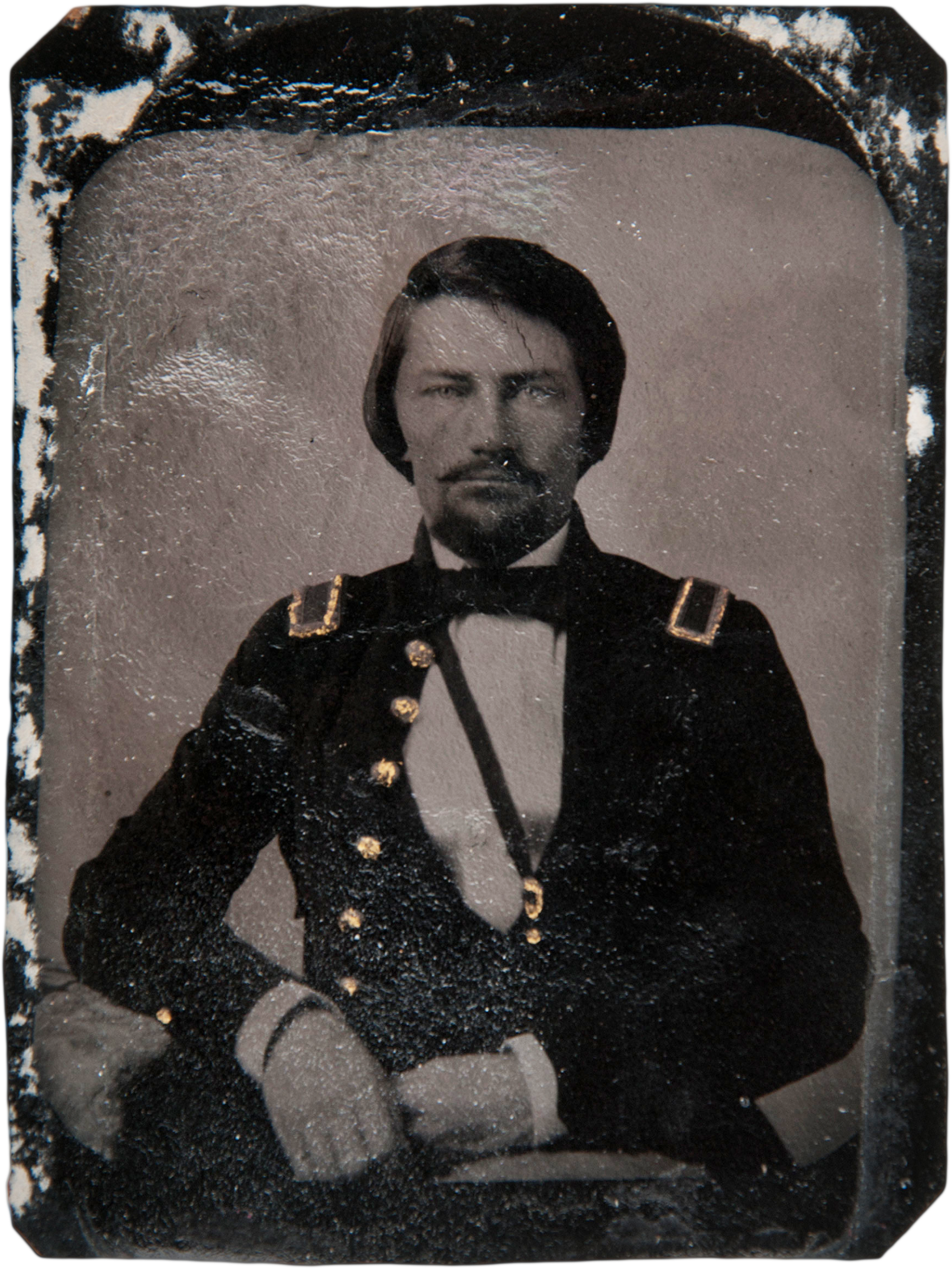 Sixth plate panotype (photographic exposure on leather) of Union General Thomas Crook Sullivan, signed on verso Very Truly Yours, Thomas C. Sullivan, US Army.